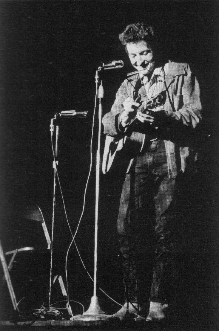 Bob Dylan performing at St. Lawrence University in New York.